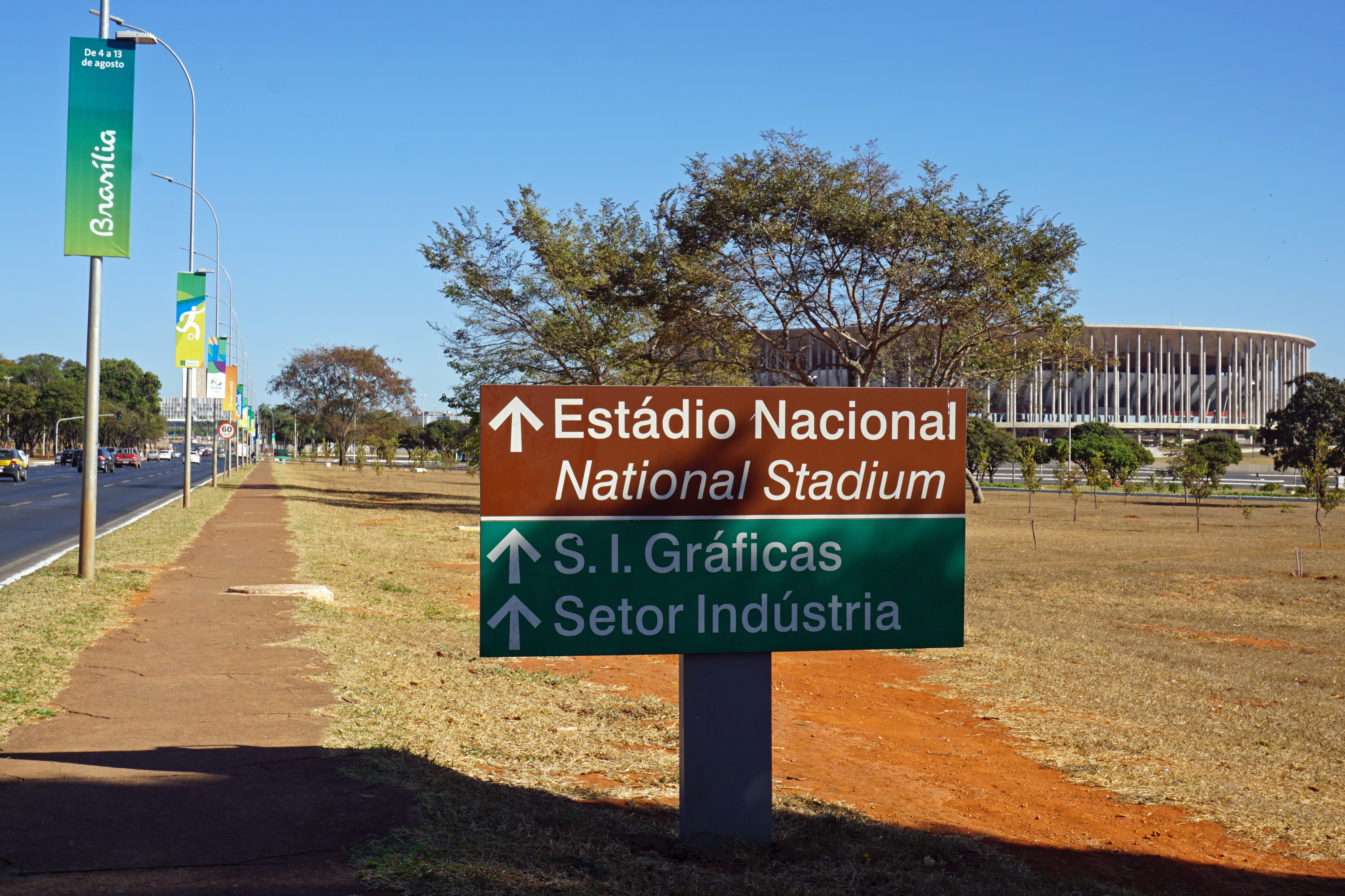 Summer Olympic Games Rio 2016 livery near Estadio Nacional Mane Garrincha, Brasilia, venue for several football matches. Warning: One or more elements in this image are protected by copyright Some parts of this file (copyrighted logos 2016 Summer Olympic Games or Rio 2016) are not fully free but believed to be de minimis for this work. Derivatives of this file which focus more on the non-free element(s) may not qualify as de minimis and may be copyright violations. As a direct consequence it might be needed to review the copyright status if you crop the picture. The reason given is: (no reason given).